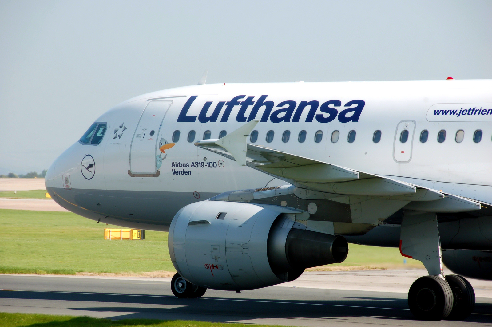 Lufthansa Airbus A319-100 (D-AILU) taxis past the Aviation Viewing Park after landing at Manchester Airport, England.